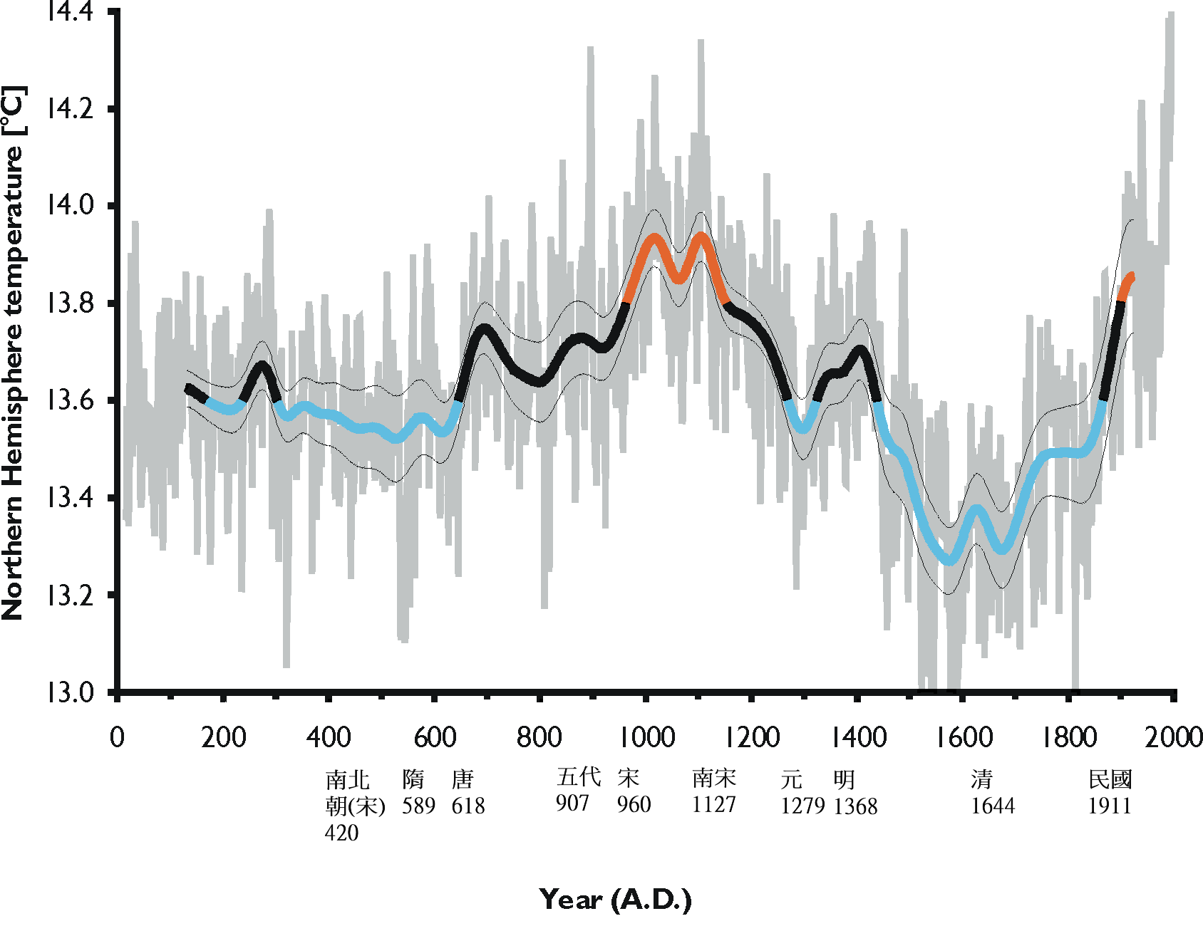 Average temperature of the Northern Hemisphere during the past 2000 years. The grey lines are the annual reconstructed estimates. The bold curve is the low frequency component (estimable between 133 and 1925). Colours indicate especially cold and warm periods. (Cold: Migration Period and Little Ice Age; warm: Medieval Warm Period and the Present.) The thin lines are the 95% confidence intervals (uncertainty due to the variance among the different proxies used).